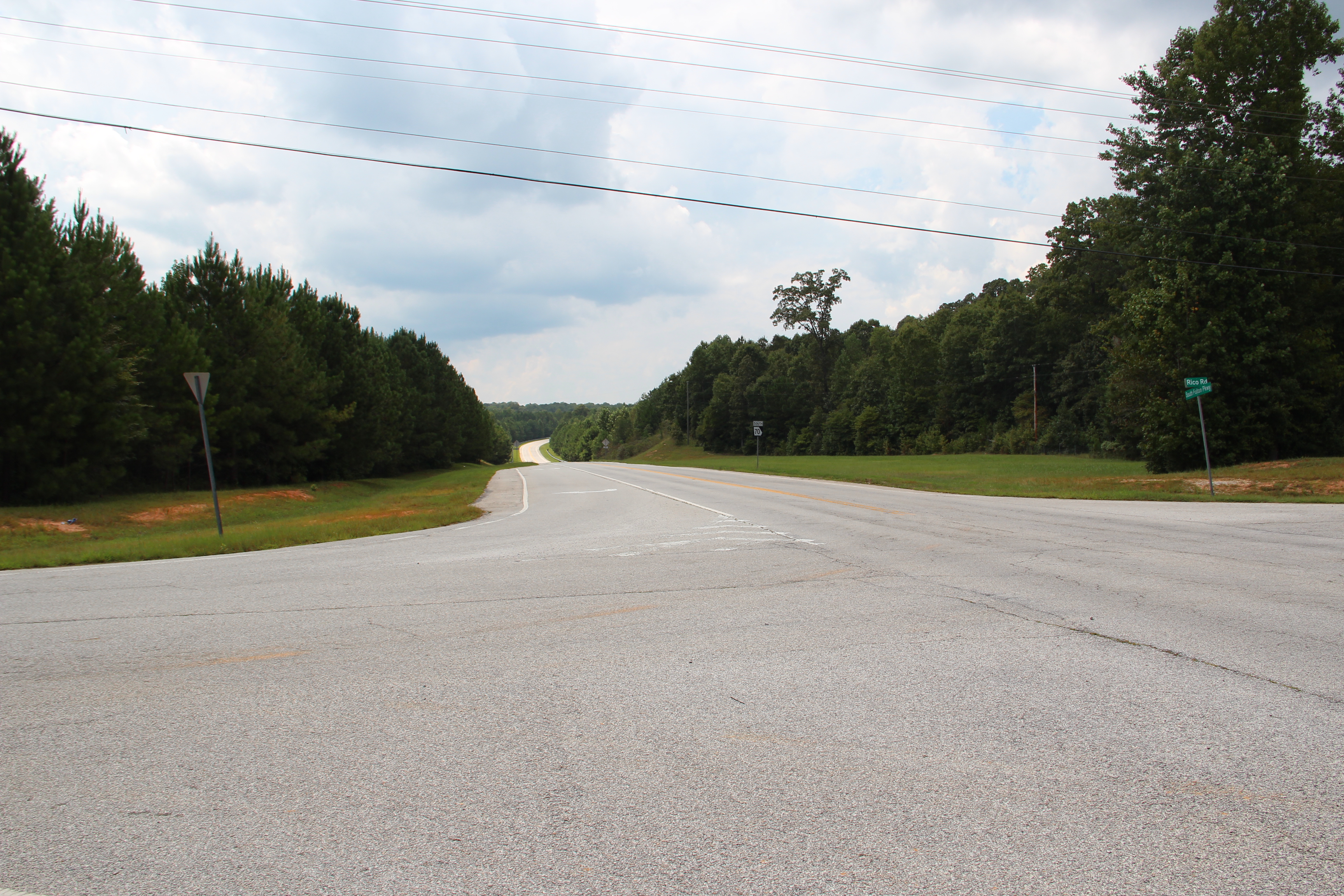 South Fulton Parkway near Chattahoochee Hills, Georgia